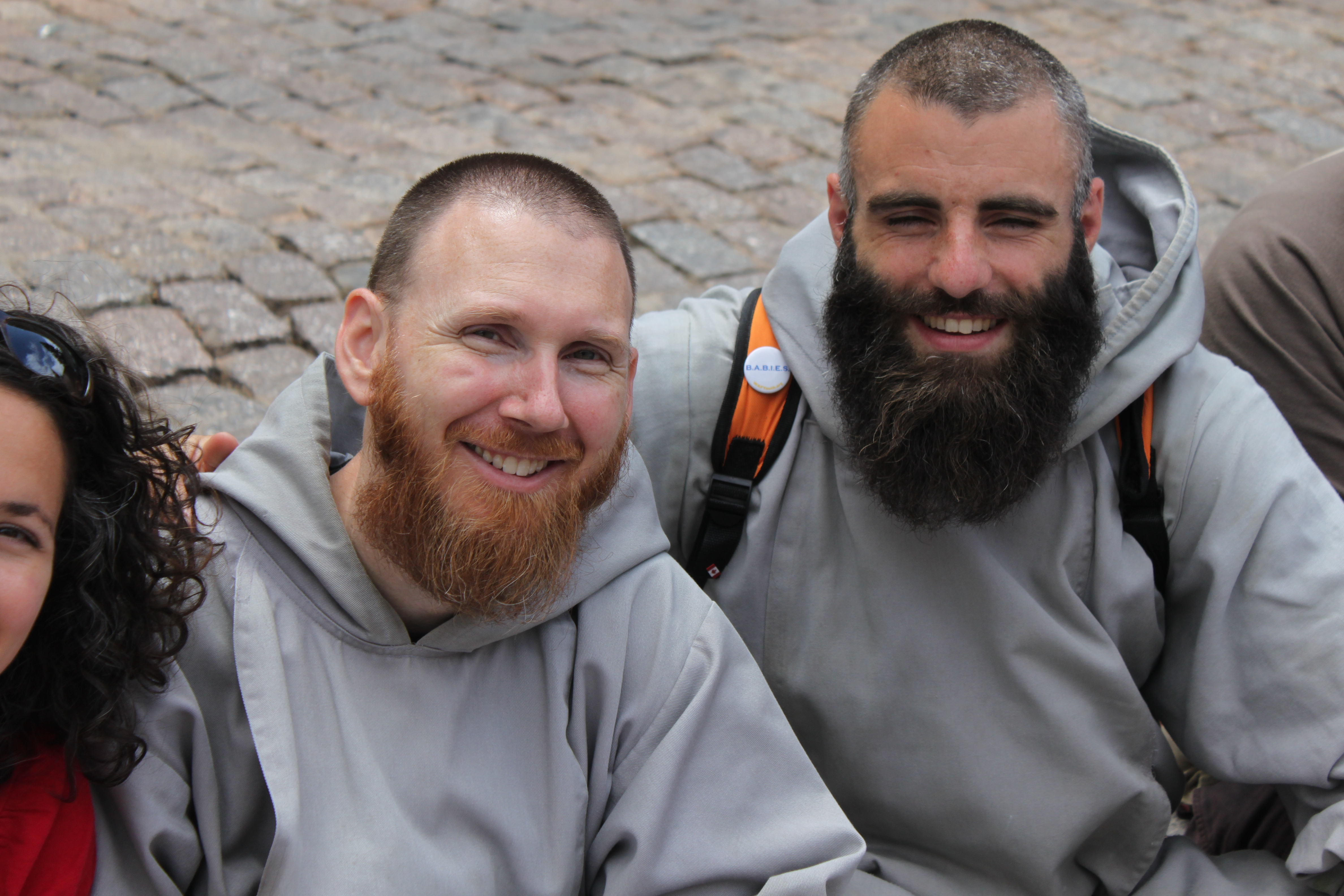 Two priests: Fr Jacob CFR and Br John Baptist CFR at World Youth Day 2011 in Madrid